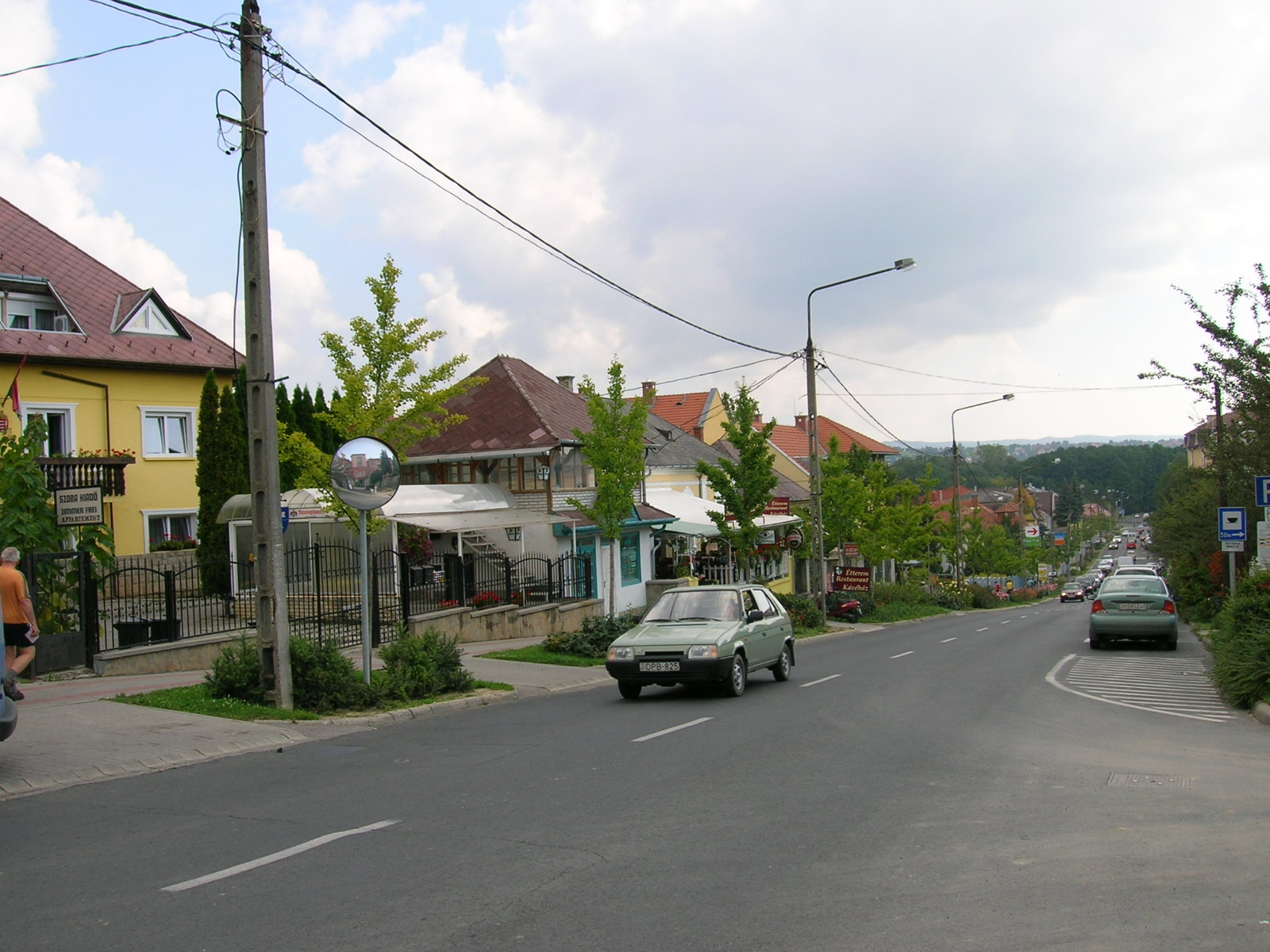 A street of Hévíz, Hungary.